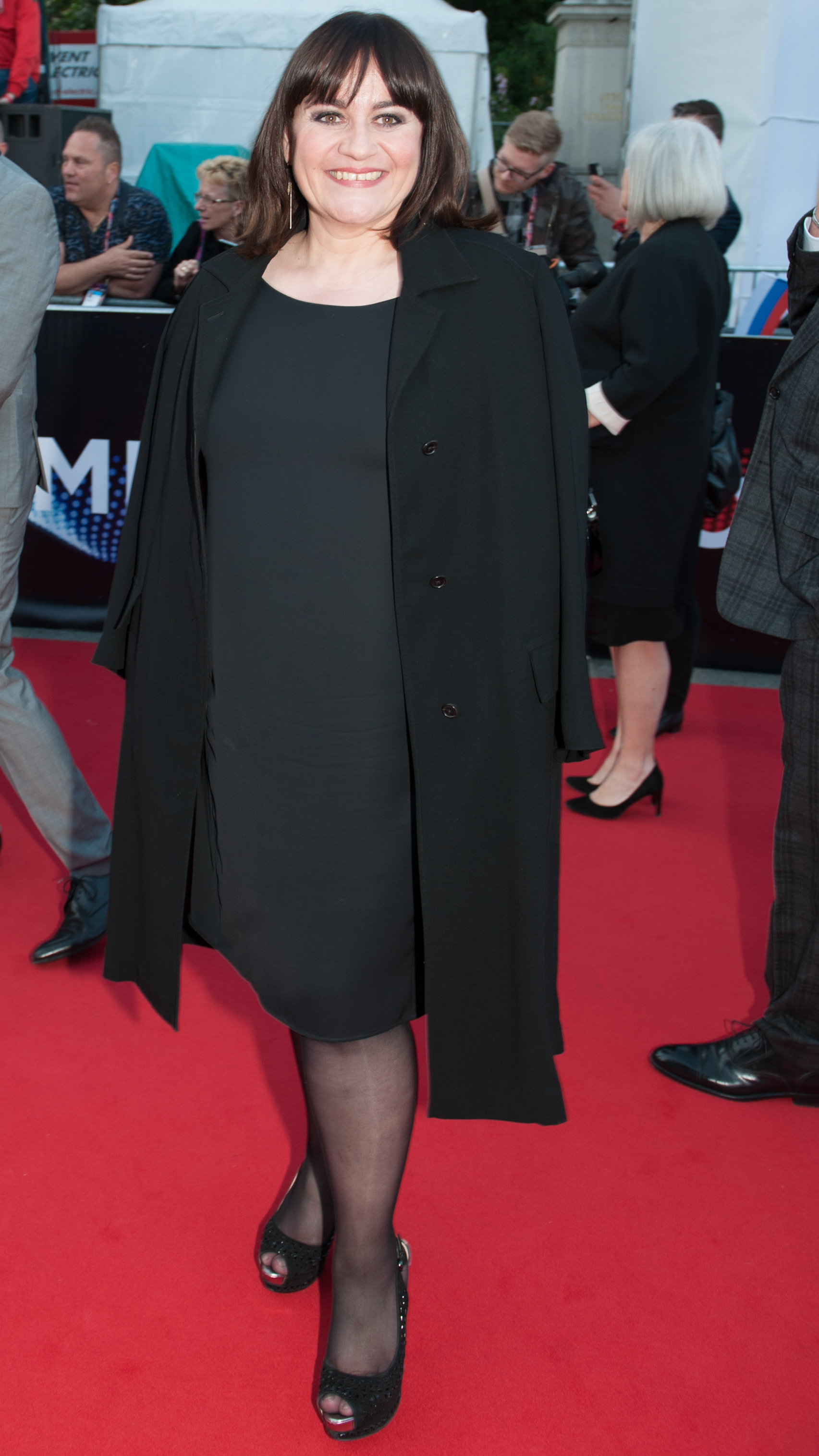 Eurovision Song Contest Vienna 2015: Lisa Angell